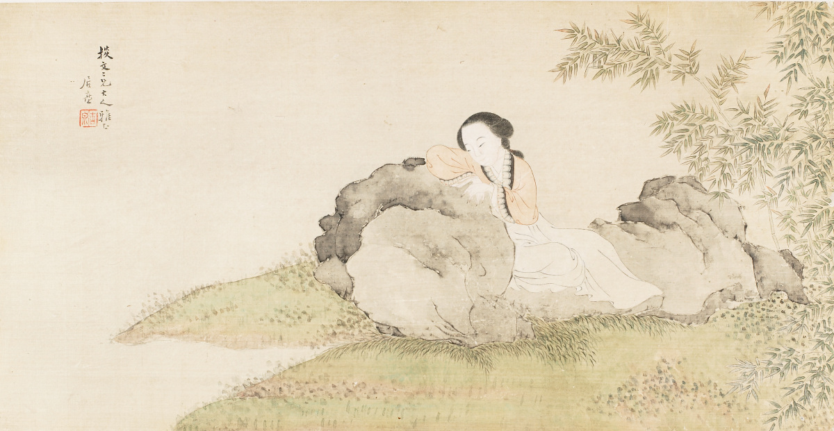 Lady by Ju Lian, created during the Qian Dynasty